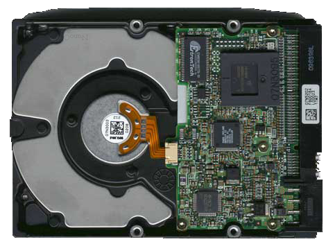 Vista inferior de IBM Deskstar